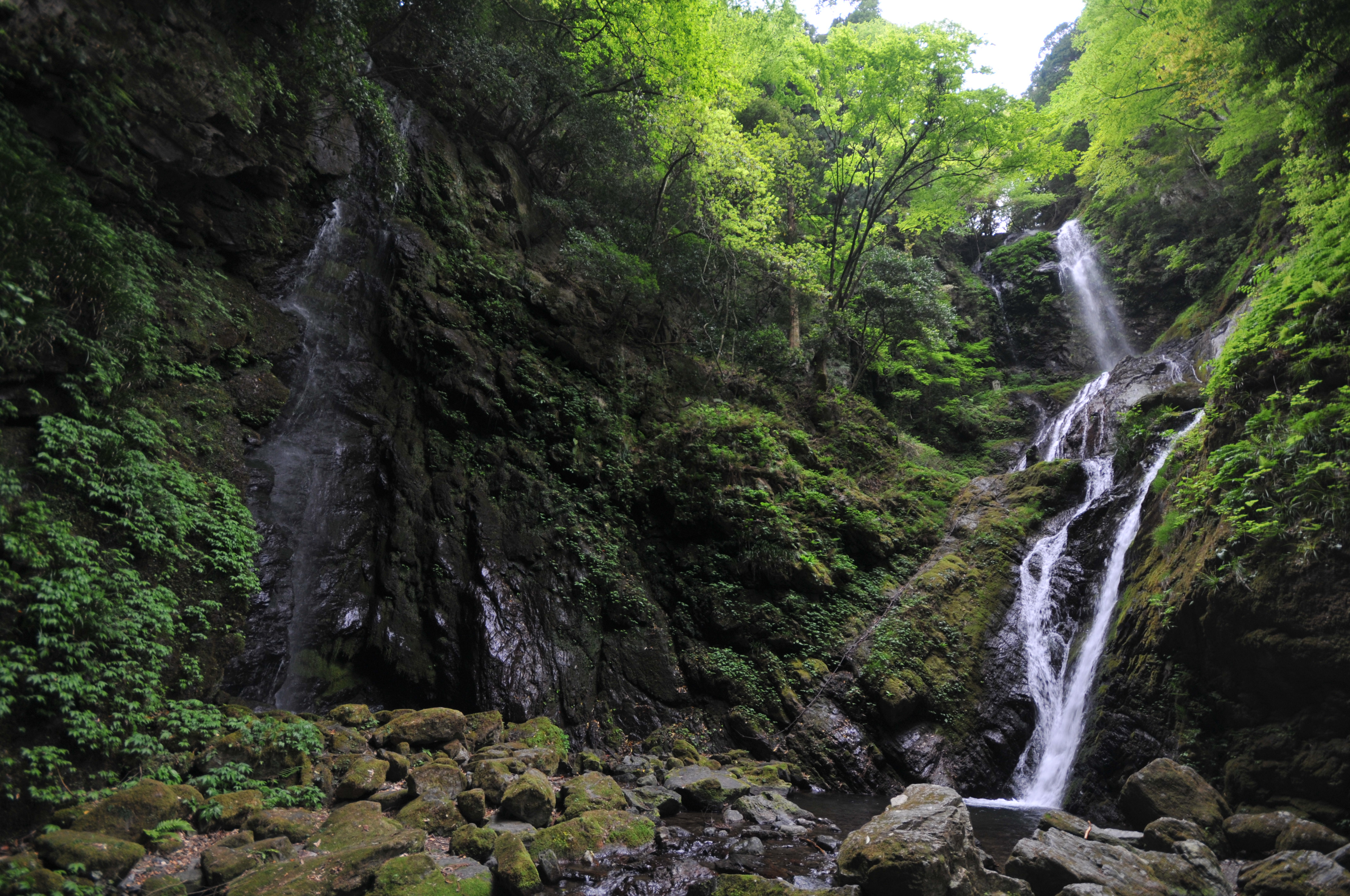 Amagoi waterfalls